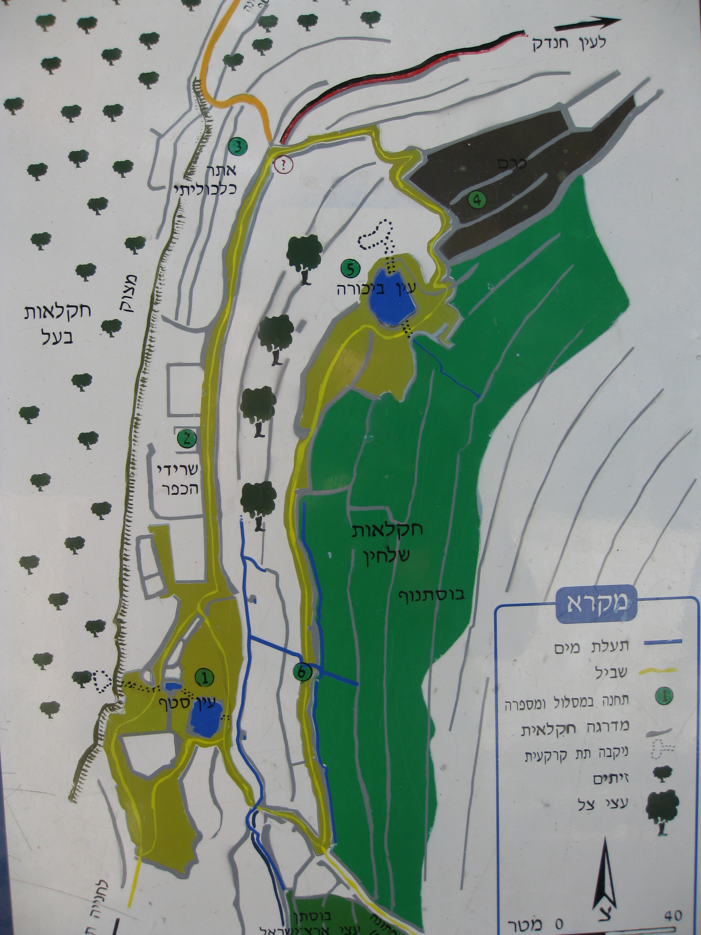 Sataf